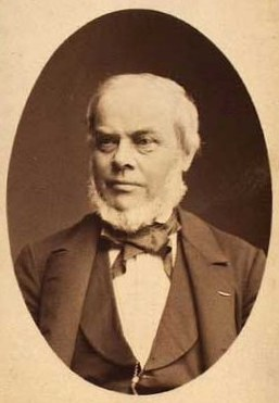 Ludvig August Colding (1815-1888), Danish physicist and engineer